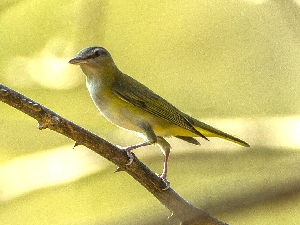 Yellow-green Vireo - Carara - Costa Rica_S4E0062